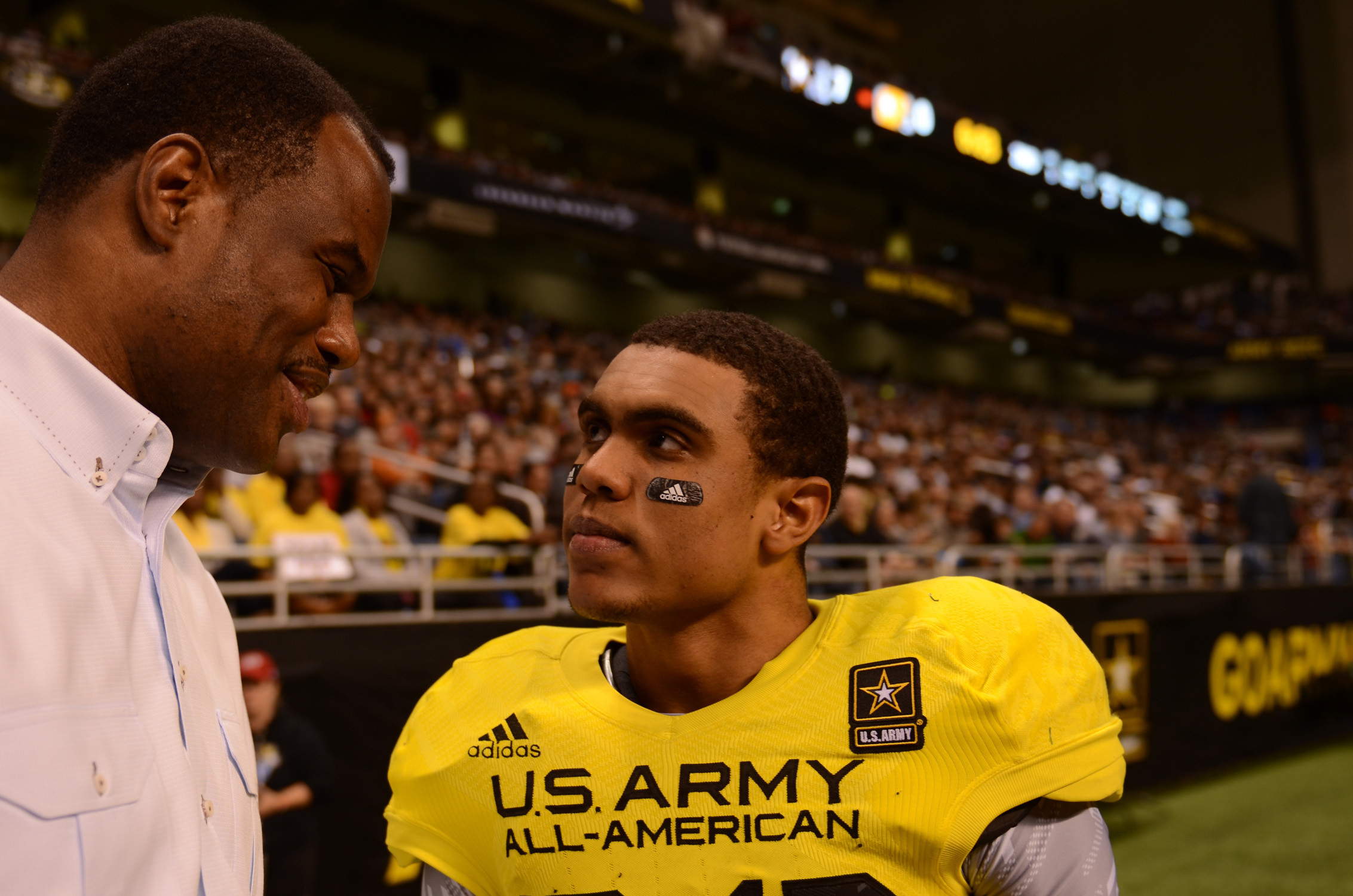 David Robinson, retired from the Spurs, speaks with his son, Corey Robinson, wide receiver for the West team, at the U.S. Army All-American Bowl at the Alamodome in San Antonio on Jan. 5, 2013. The U.S. Army All-American Bowl was sponsored by the U.S. Army. (U.S. Army Reserve photo by Pfc. Victor Blanco, 205th Public Affairs Operations Center)